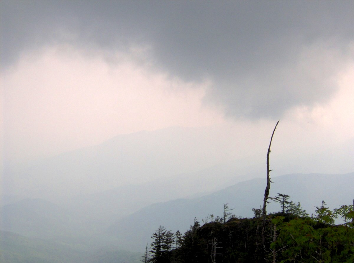 Looking east from Myrtle Point, one of the four peaks of Mount Le Conte in the Great Smoky Mountains of Tennessee, located in the southeastern United States. As the morning fog lifts, Mt. Guyot and the Eastern Smokies emerge to dominate the horizon. The spine-like tree on the right is actually the top of a dead fraser fir in the foreground.